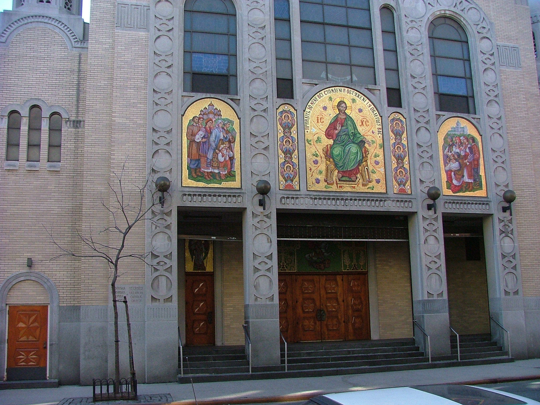 Picture 088: St. George Ukrainian Catholic Church